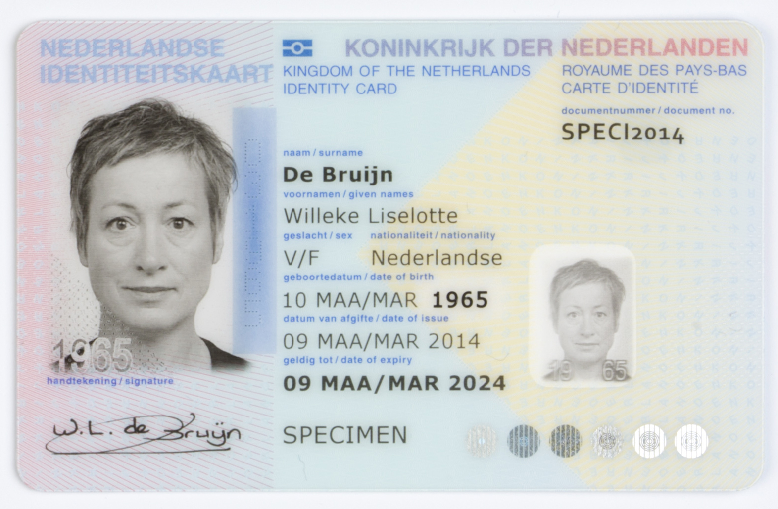 Dutch identity card front specimen issued 9 March 2014